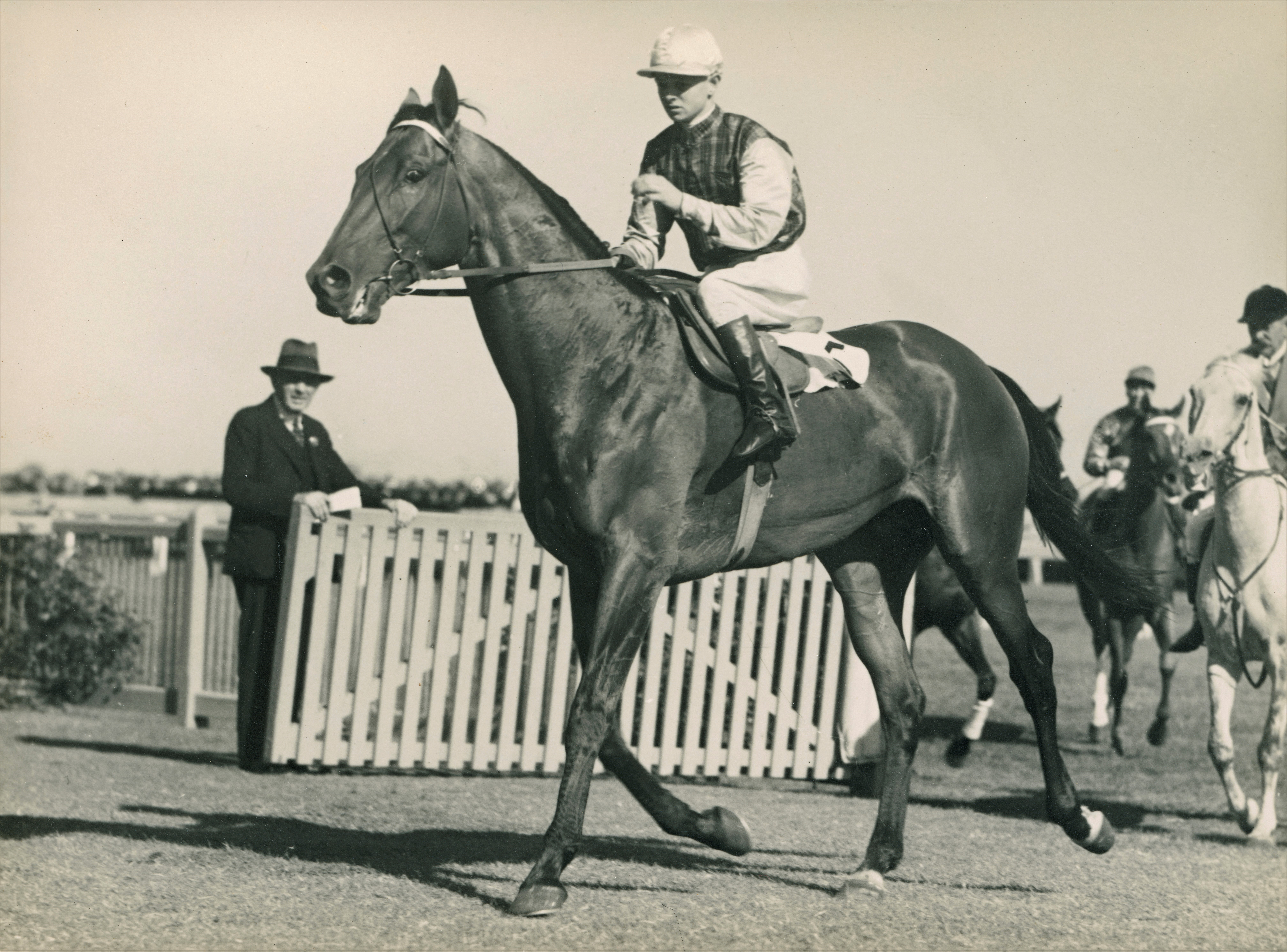 High resolution scan from original